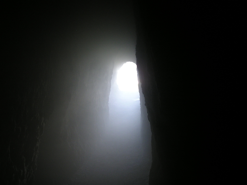 Manmade tunnel under the K'iche' Maya ruins of Q'umarkaj in El Quiche department, Guatemala. This gives some idea about how smokey it was down there.